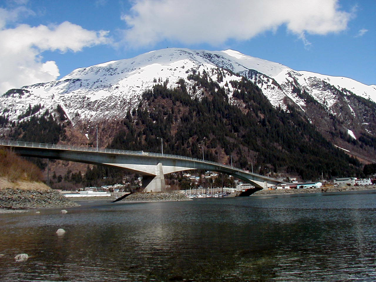 Juneau Douglas Bridge with Mount Juneau